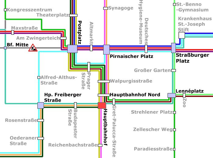 schematic map of the Dresden tram lines in the southern city. Focus on Dresden Hauptbahnhof train station. (Version as of November 2006)